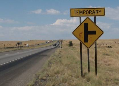 At-grade insersection on Interstate 40 west of Albuquerque, New Mexico, as of 2003.